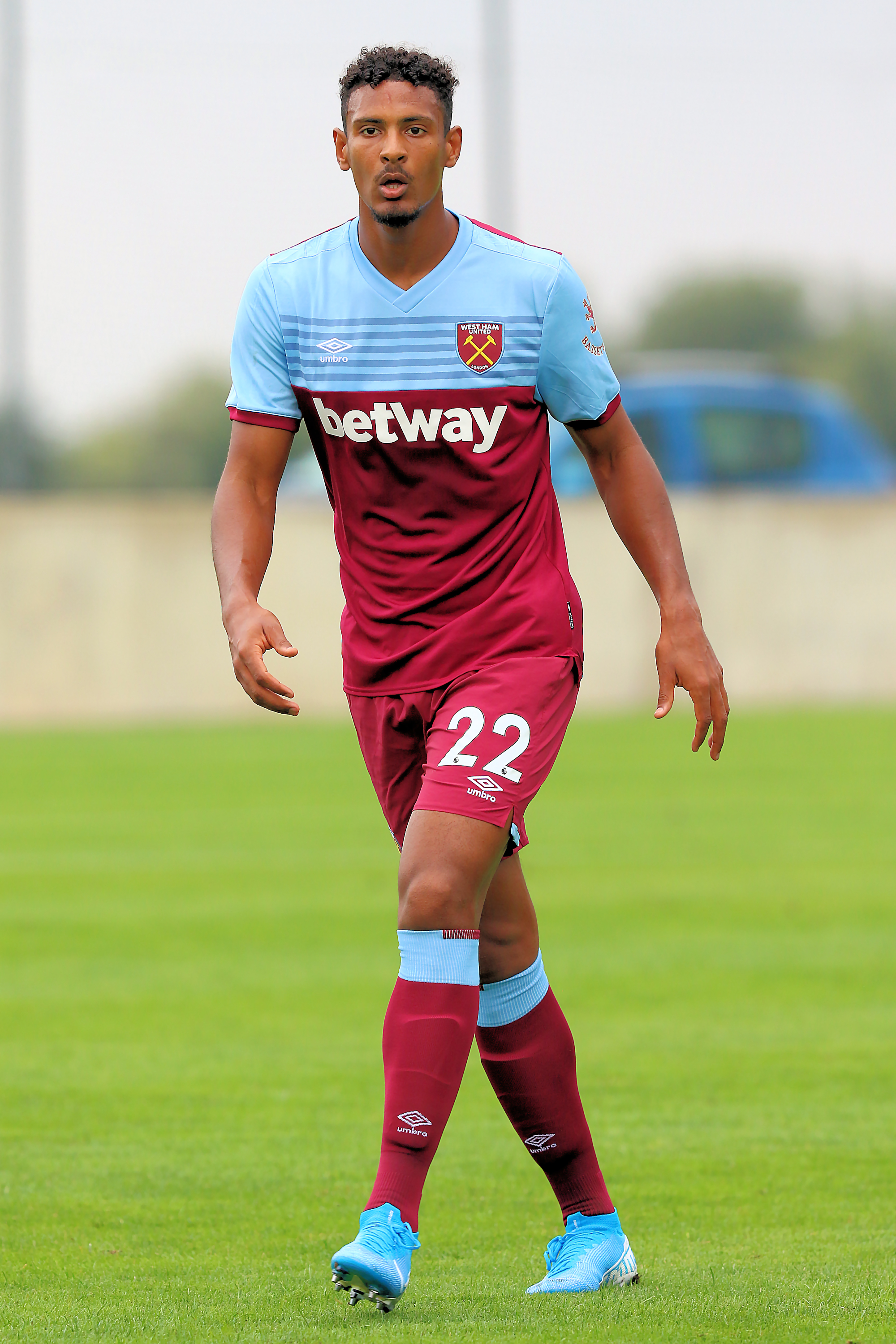 Friendly match Hertha BSC (blue-white shirts) vs. West Ham United (red-blue shirts) at 31-07-2019 3-5 (3-2) in the Sonnenseestadium in Ritzing. – The photo shows Sébastien Haller (West Ham United).